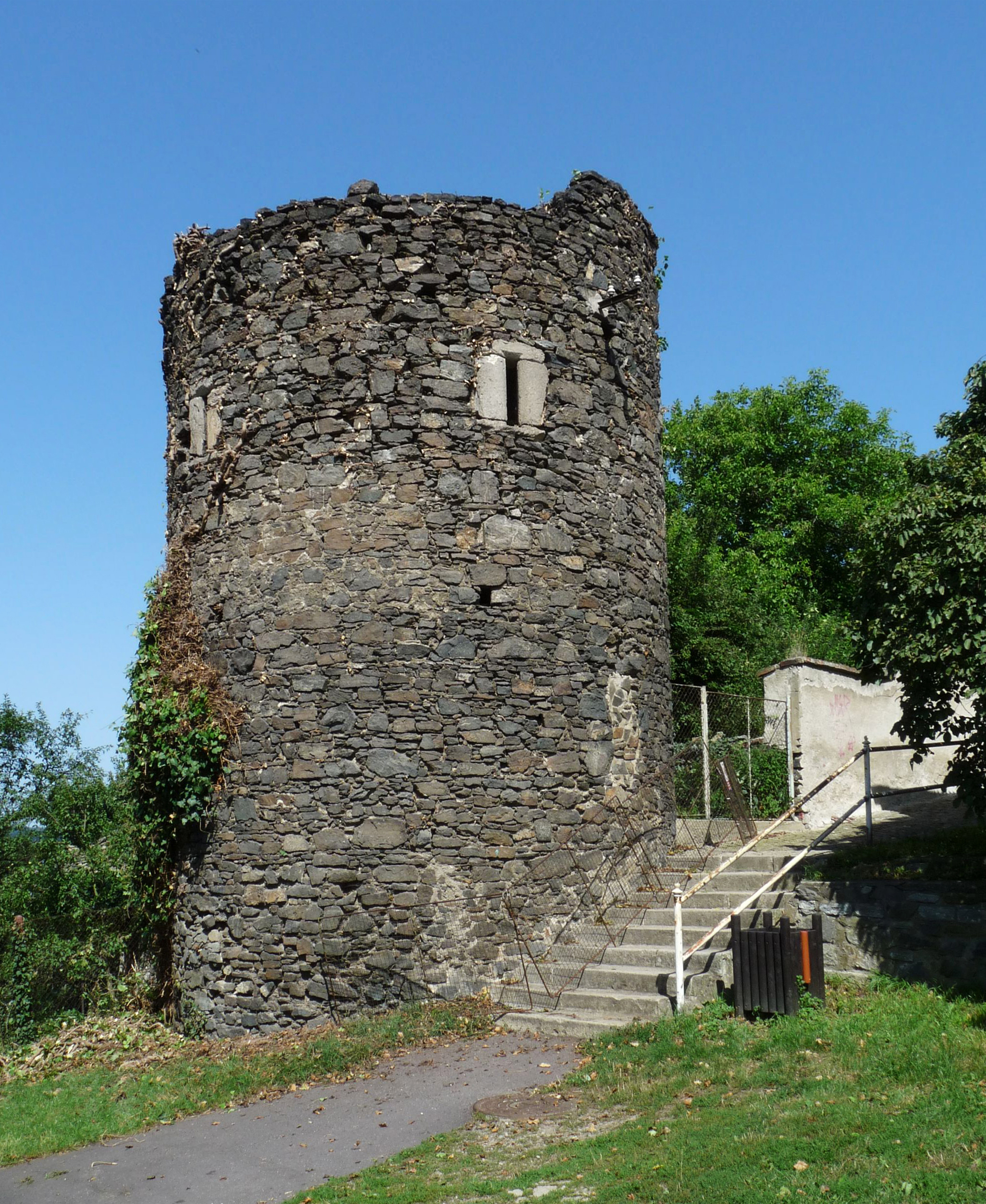 The obly preserved bastion in the town of Jemnice, Třebíč District, Czech Republic.